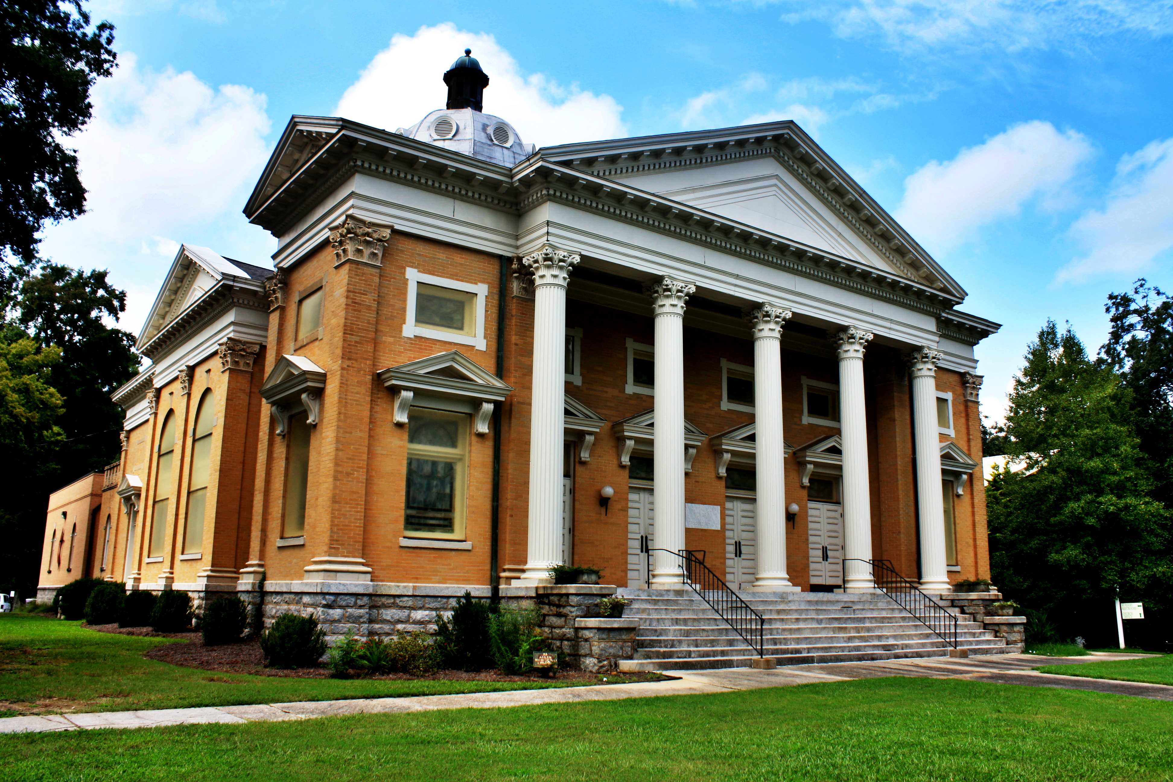 The Young J. Allen Jr. Memorial Church is one of the contributing buildings of the Oxford Historic District.